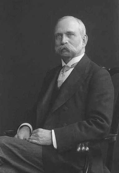 Photographic Portrait of Charles Chandler